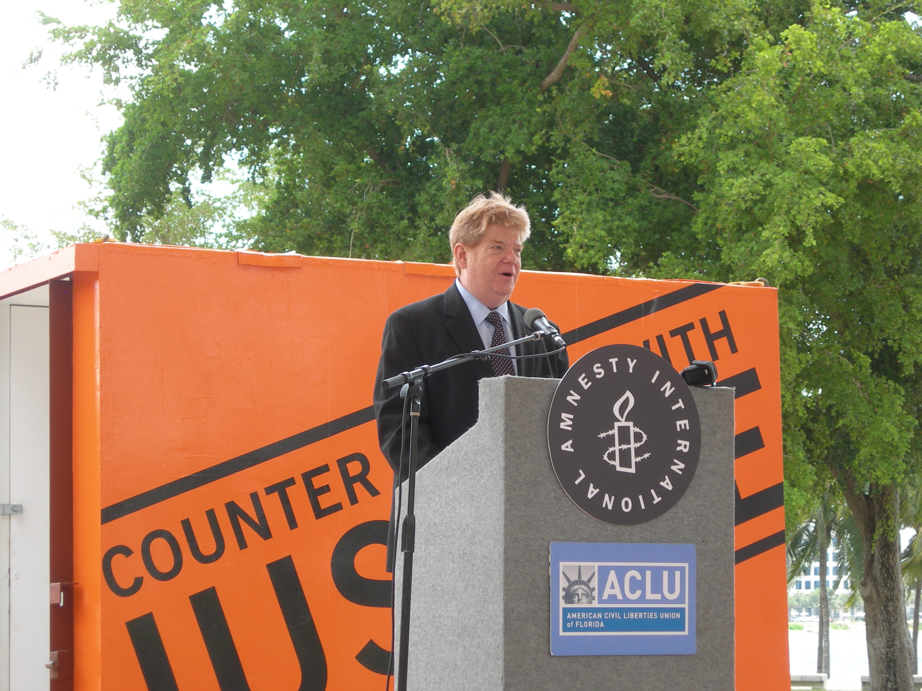 Neal Sonnett, Miami lawyer, at Amnesty International protest in Miami, Florida in May, 2008.